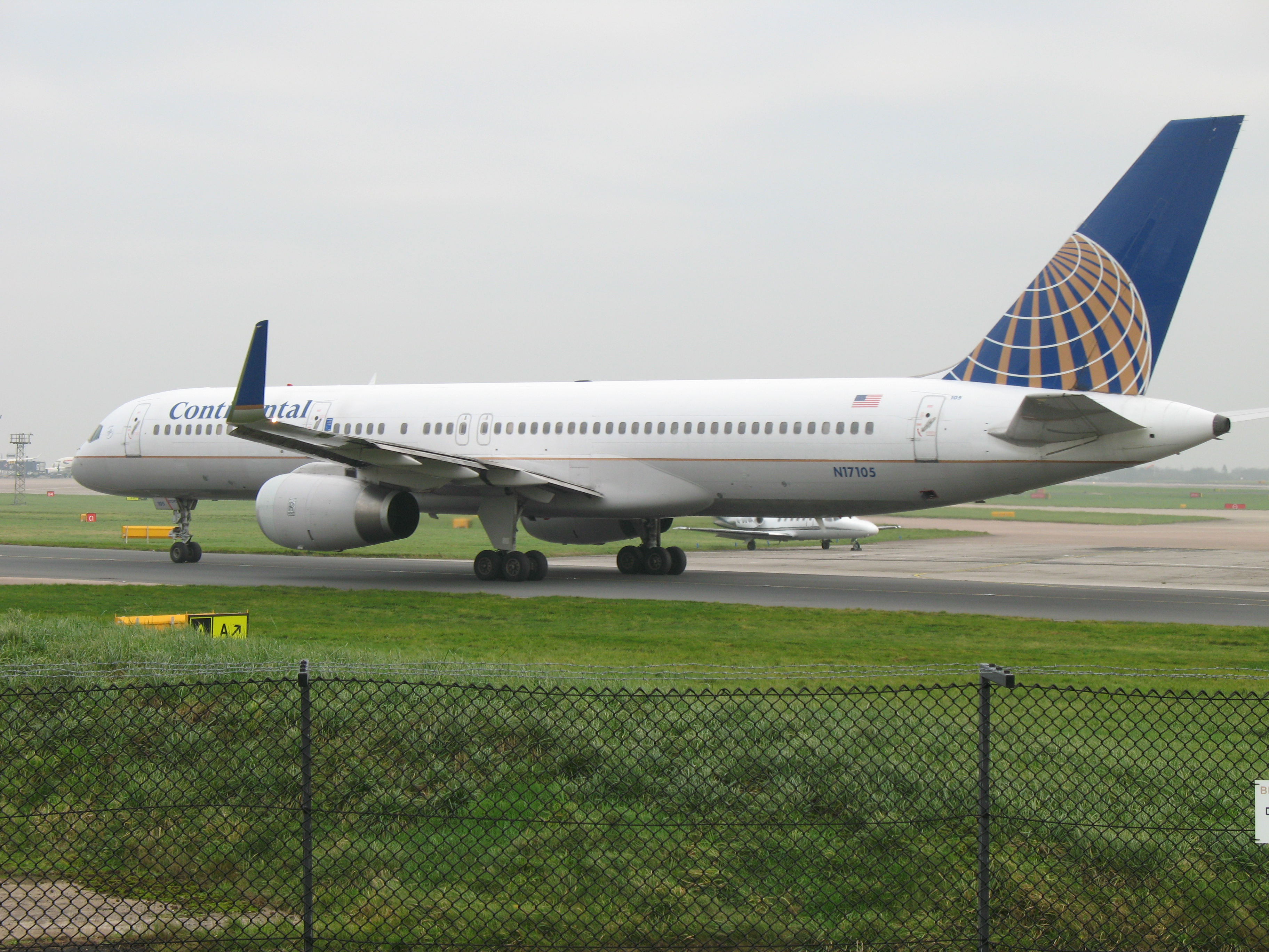 Continental Airlines Boeing 757 (N17105) Arrival COA020 taxiing past AVP.